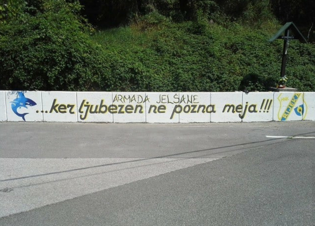 Bfjfnfncn